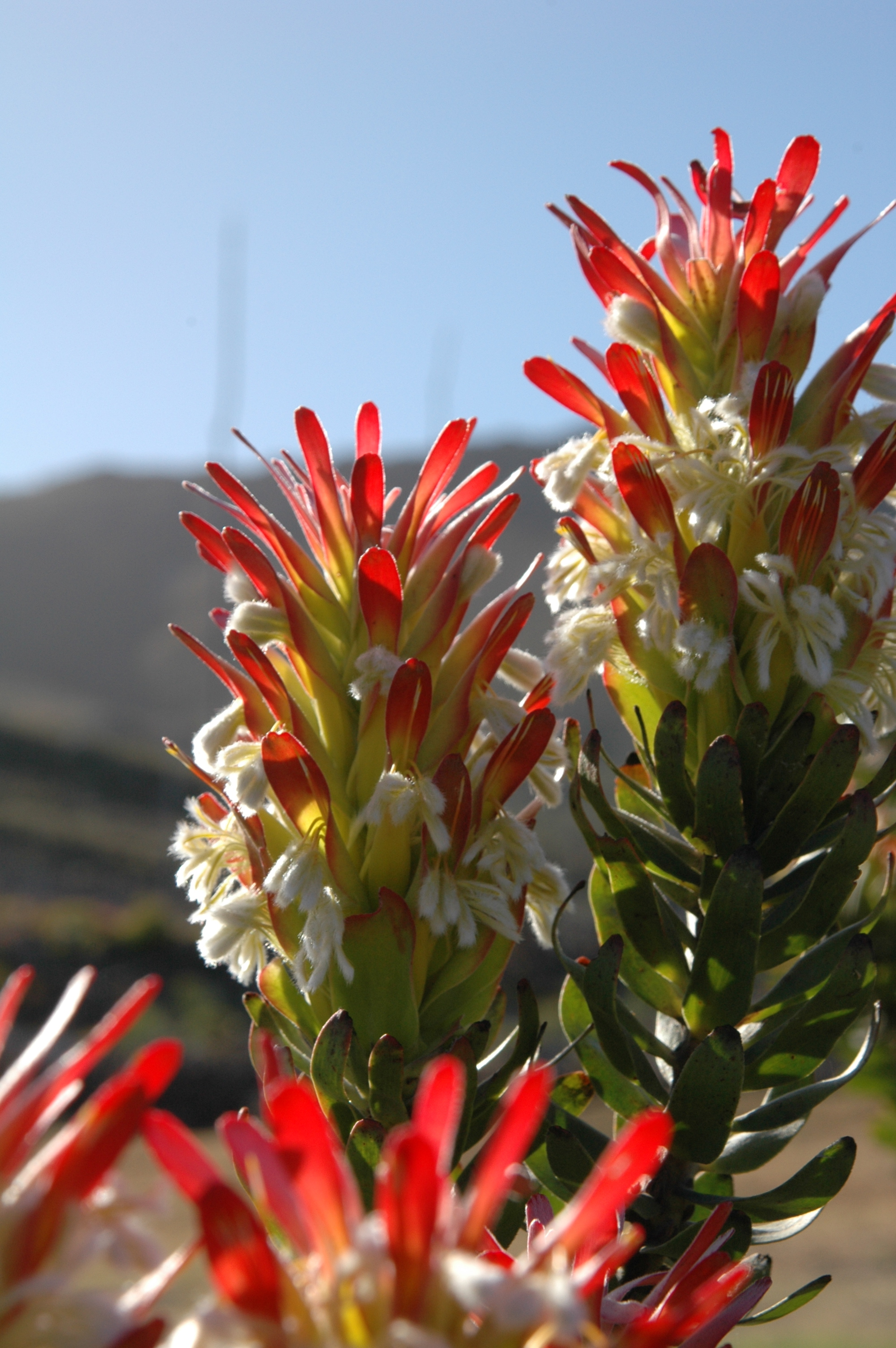 Mimetes cucullatus near Cape Town